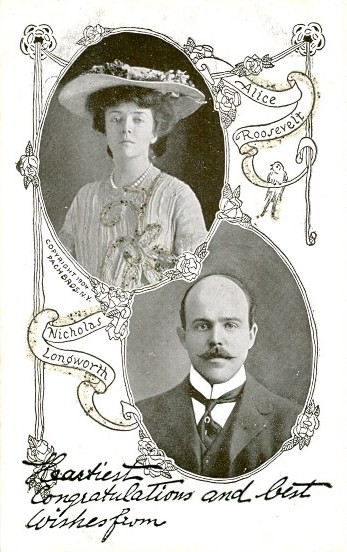 Postcard of Alice Roosevelt Longworth and Nicholas Longworth, near lower left of picture of Alice is a statement: "copyright 1906" (the year the two were married in the White House). Opposite side of postcard, shown on same Web page as this image states "Mrs. Nicholas Longworth / White House / Washington, D. C."